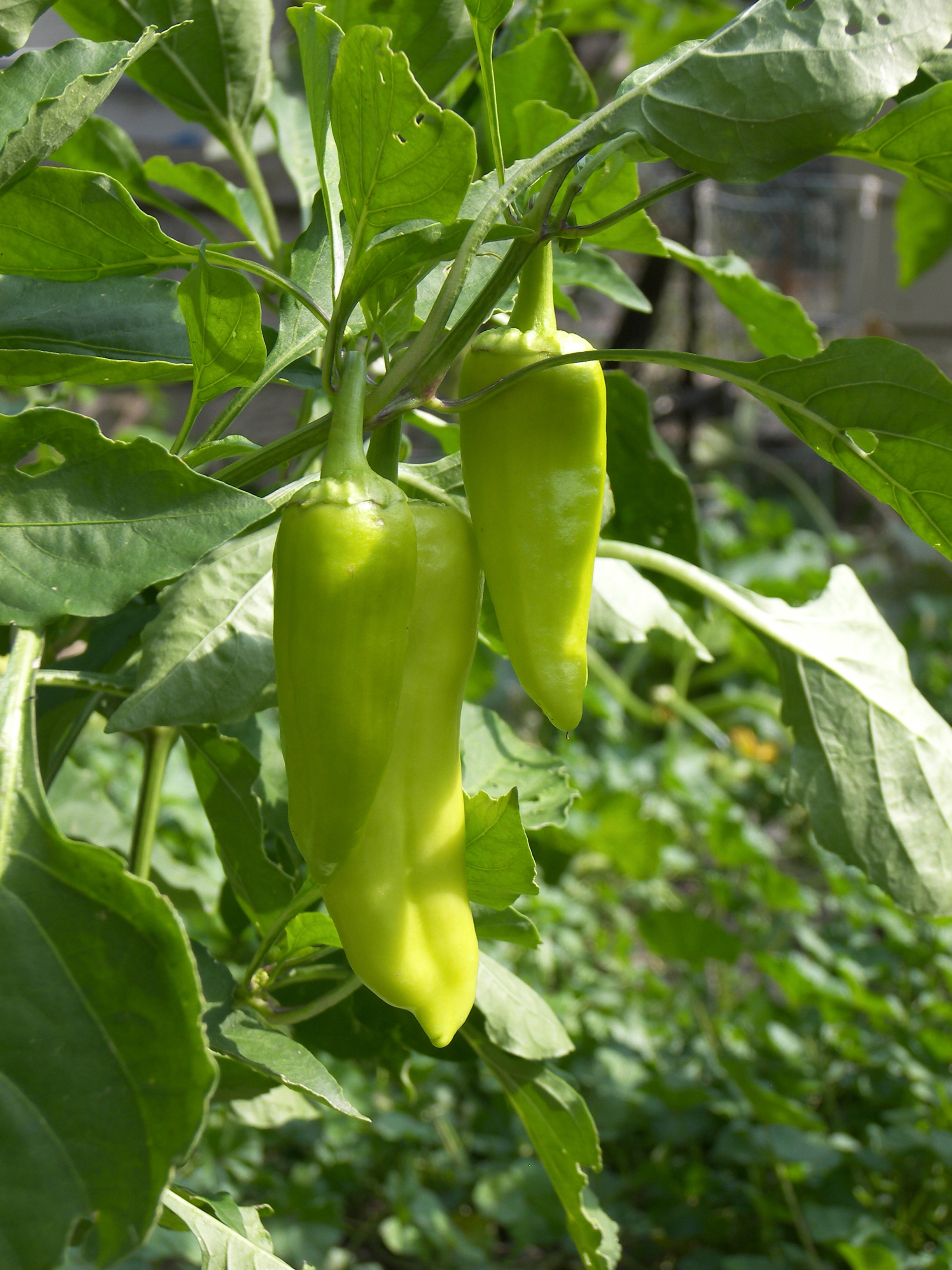 Piràmide d'aliments de l'Empordà